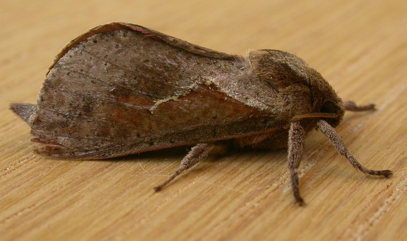 Elhamma australasiae